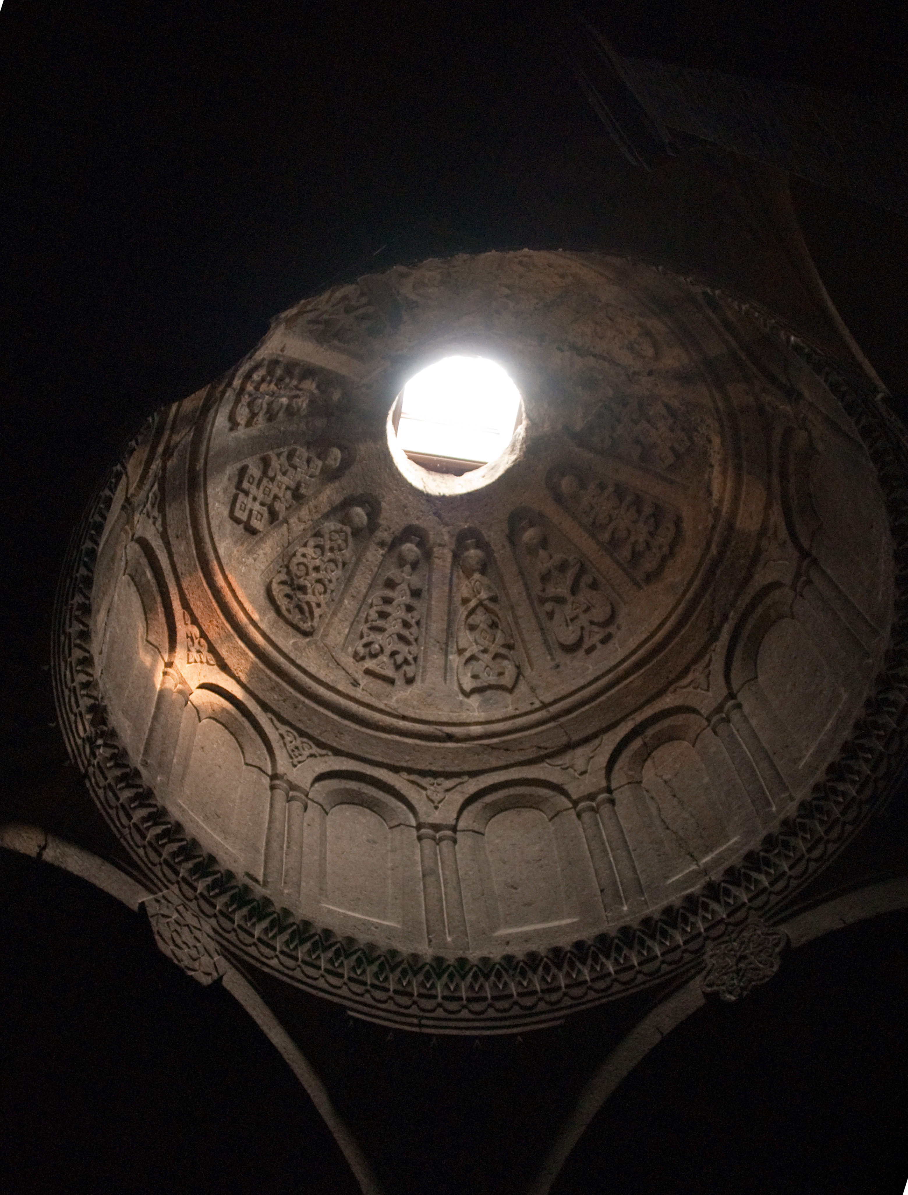 Cupola of the Proshian family's church, Geghard, Armenia.